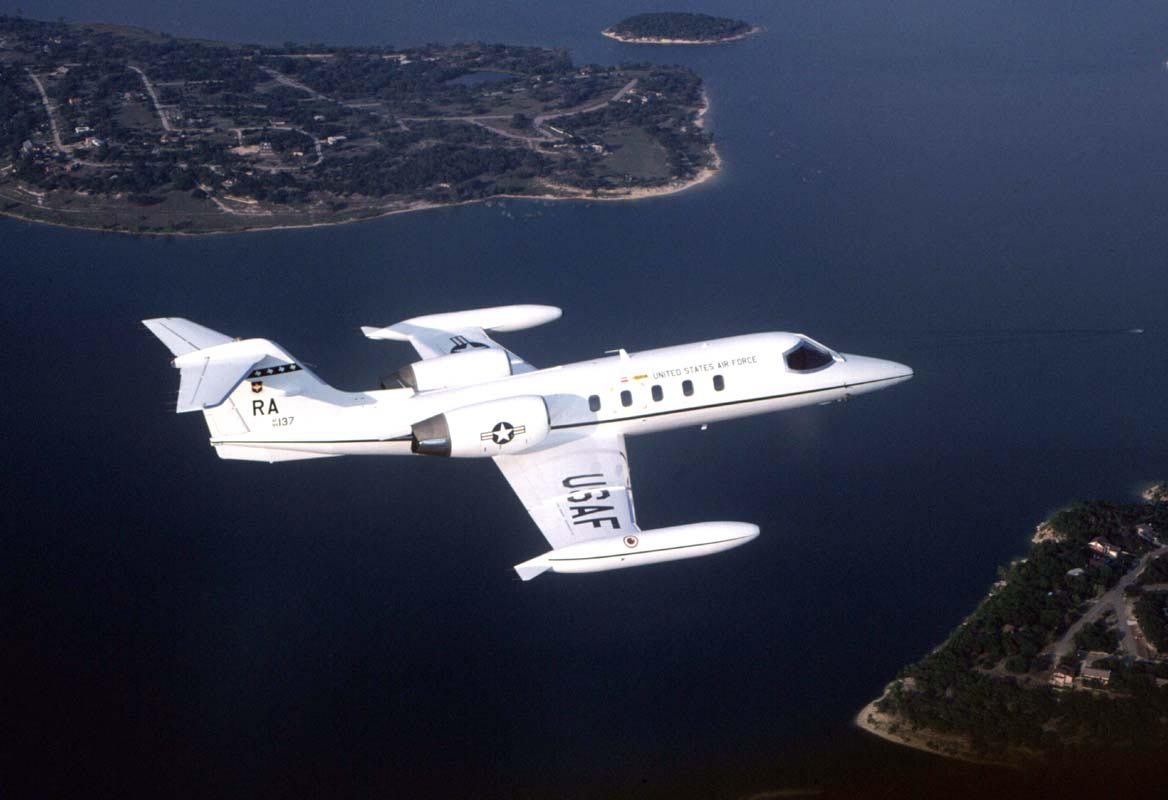 A U.S. Air Force Gates Learjet C-21A (s/n 84-0137) assigned to the 12th Flying Training Wing at Randolph Air Force Base, Texas (USA), in 2002. The C-21 is the military version of the Lear Jet 35A business jet and is used primarily for senior-level passengers, cargo airlift and aeromedical evacuations.